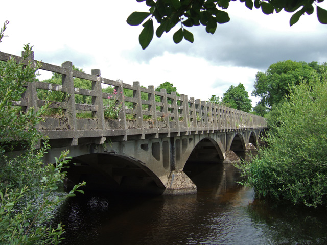 Laune Bridge The last bridge over the River Laune before it reaches Lough Leane.